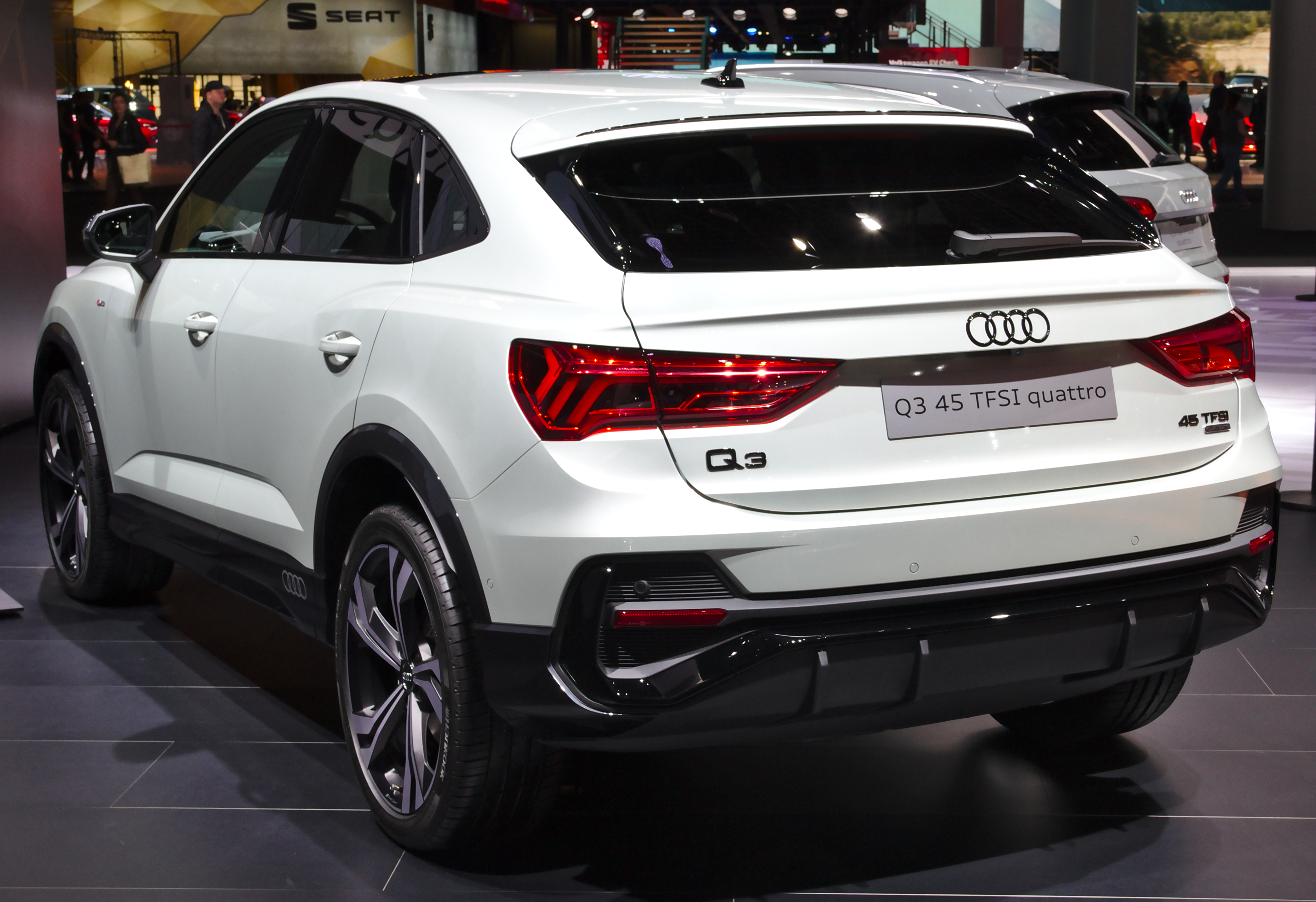 Audi_Q3_Sportback at IAA 2019